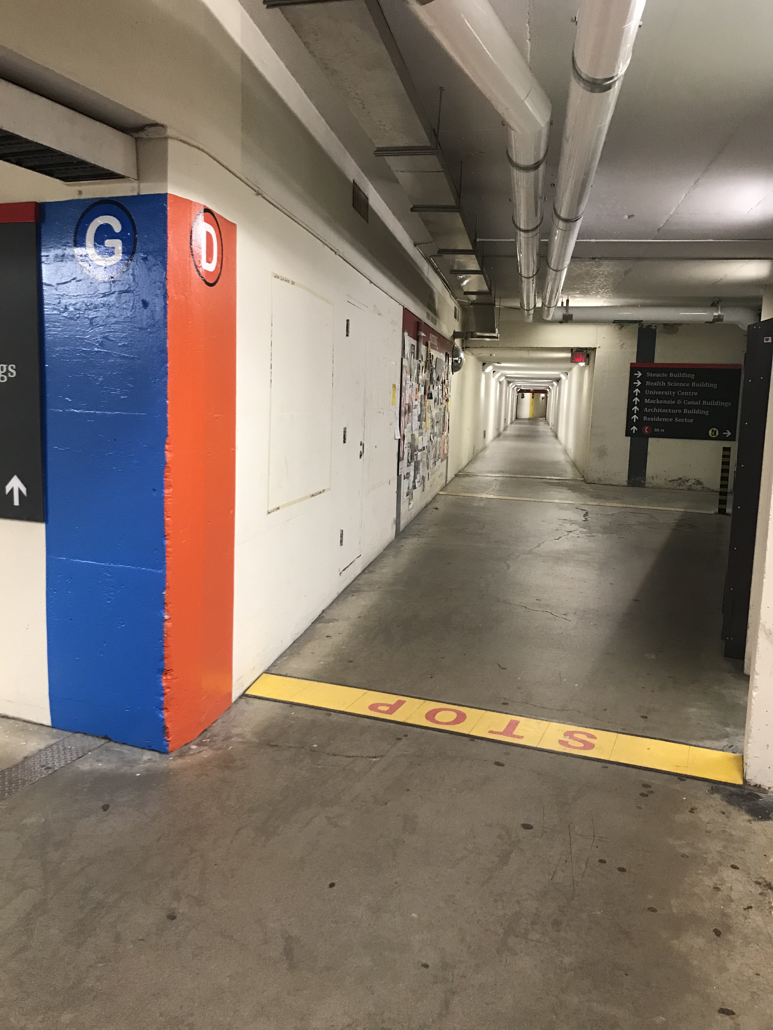 Intersection between tunnels, Carleton University